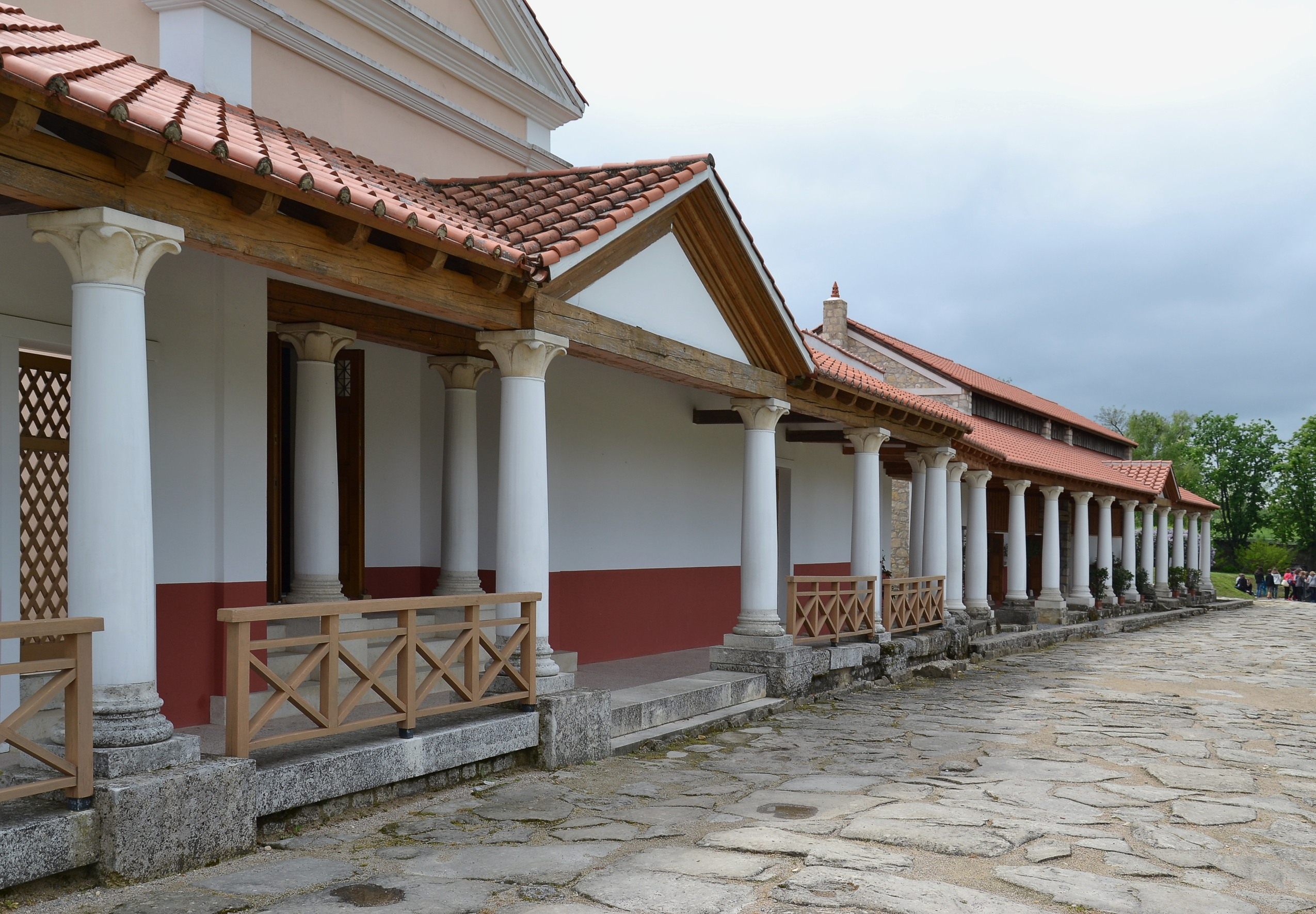 Open air museum Petronell, Austria - Thermae and Villa Urbana